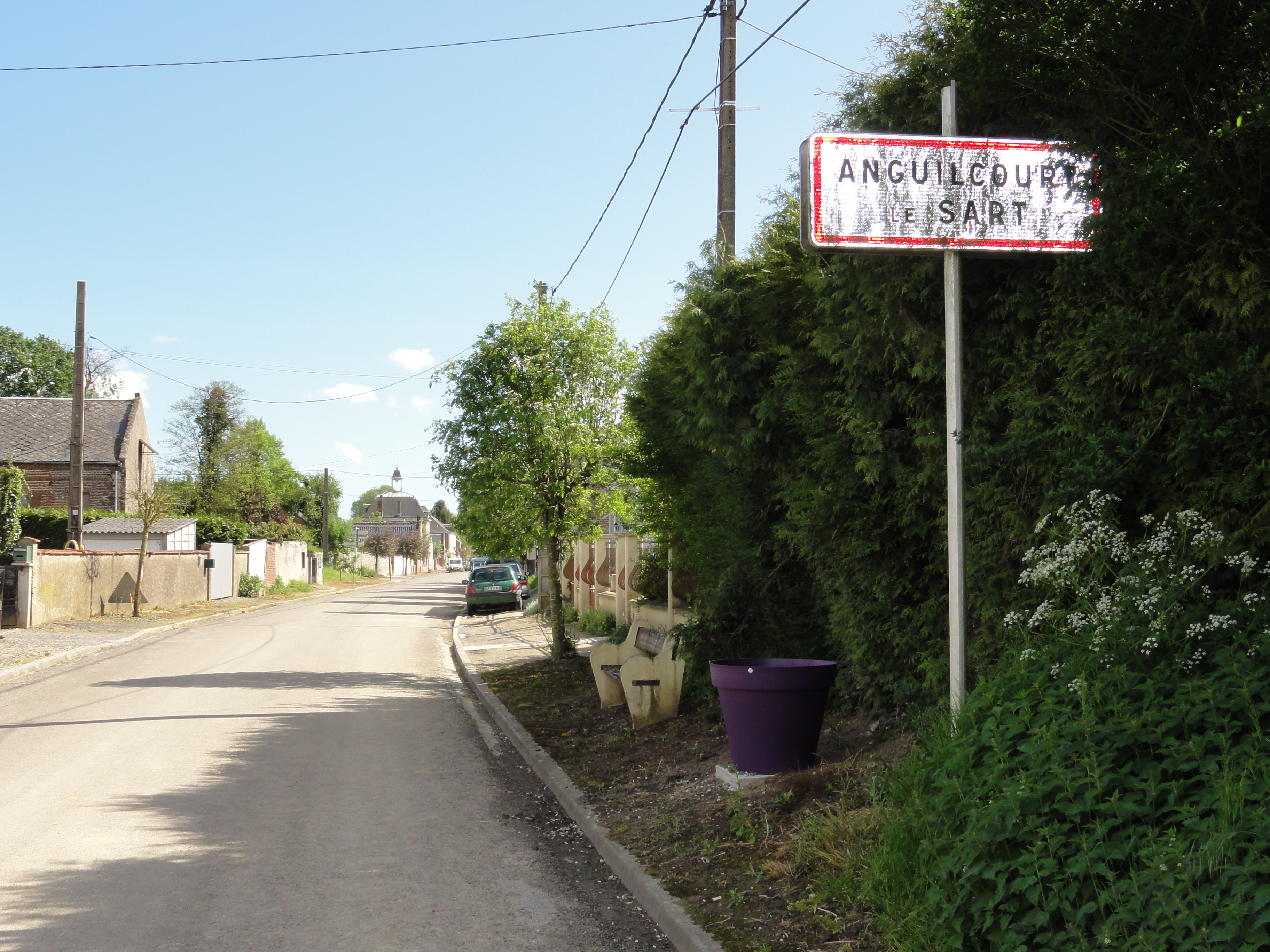 Anguilcourt-le-Sart (Aisne) city limit sign